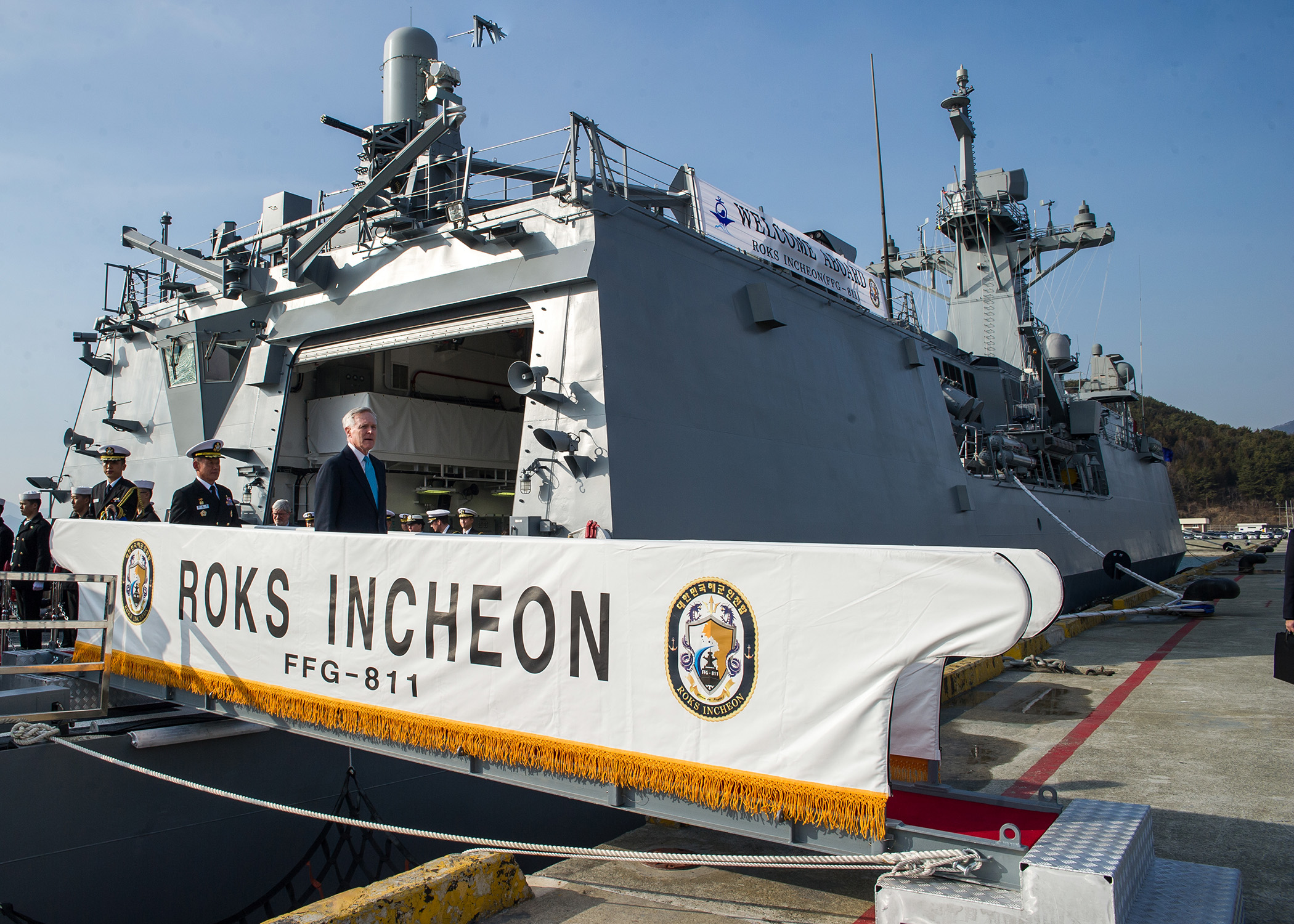 JINHAE, Republic of Korea (Feb. 19, 2012) Secretary of the Navy (SECNAV) the Honorable Ray Mabus departs the Republic of Korea navy Ifrigate Incheon (FFG-811) in Jinhae, Republic of Korea. (U.S. Navy photo by Chief Mass Communication Specialist Sam Shavers/Released)